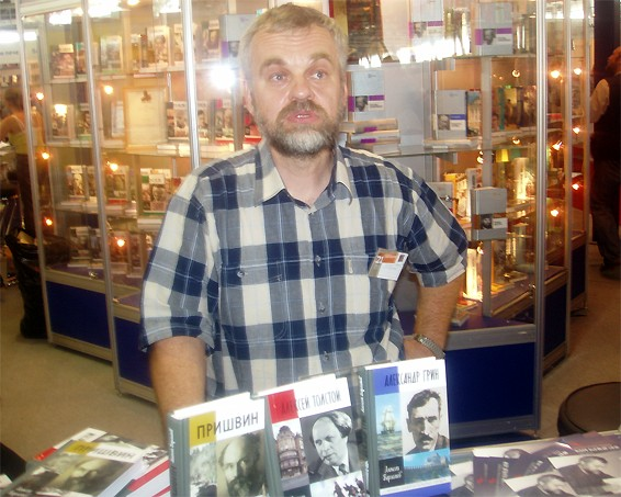 Russian writer Alexey Varlamov with his books